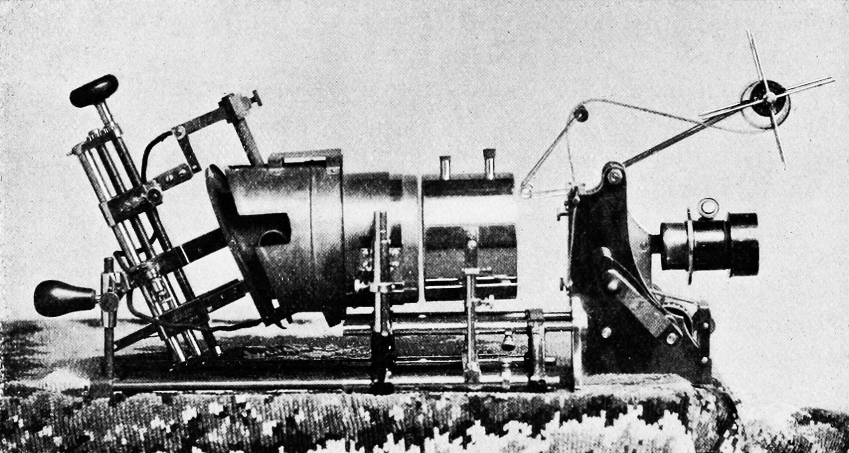 Phantascope projector for animated pictures